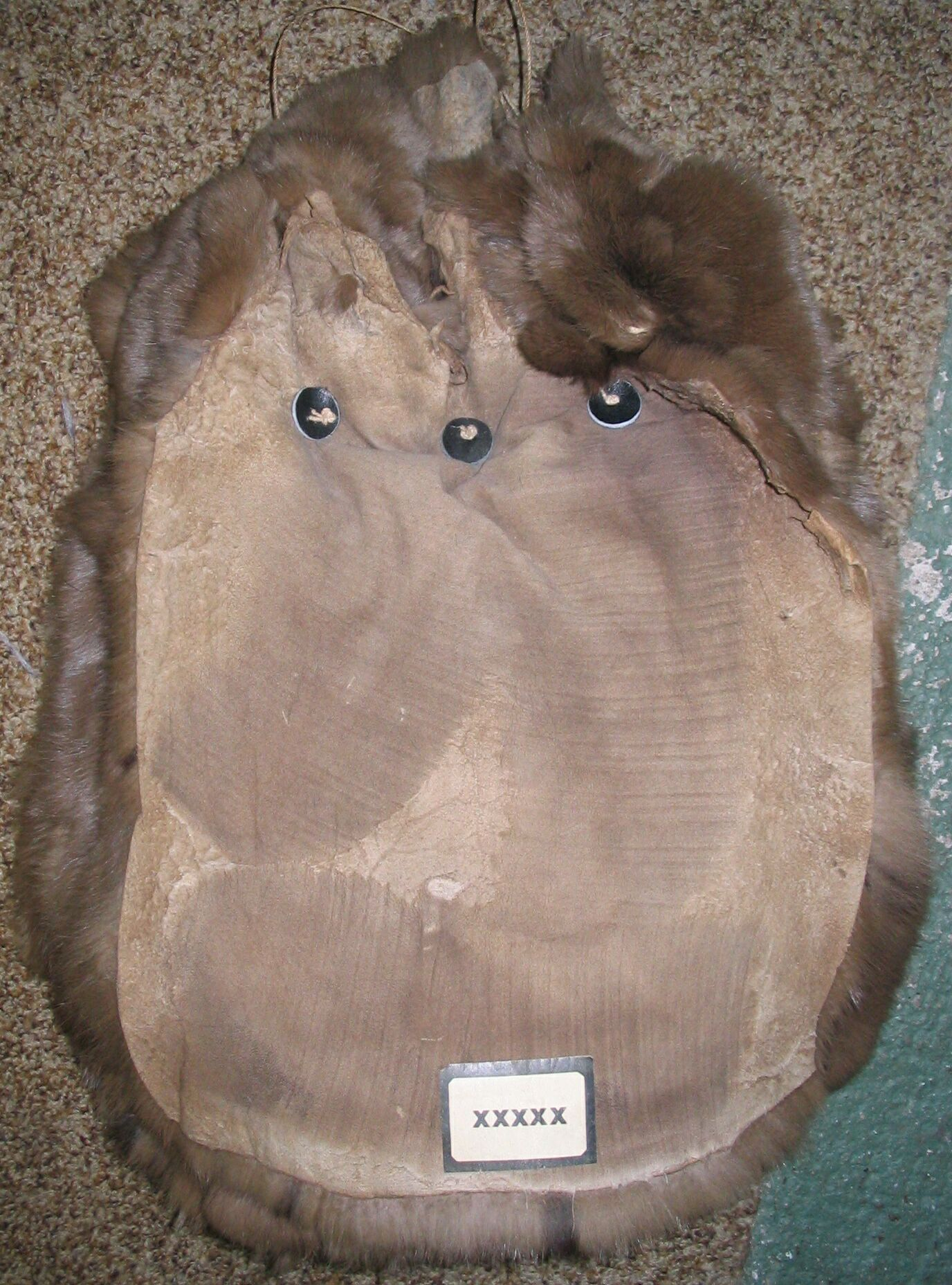 Domestic Rabbit skins German quality 5x black